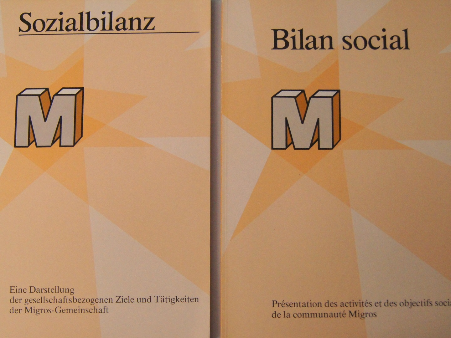 social balace, Migros in Switzerland, German and Frech version